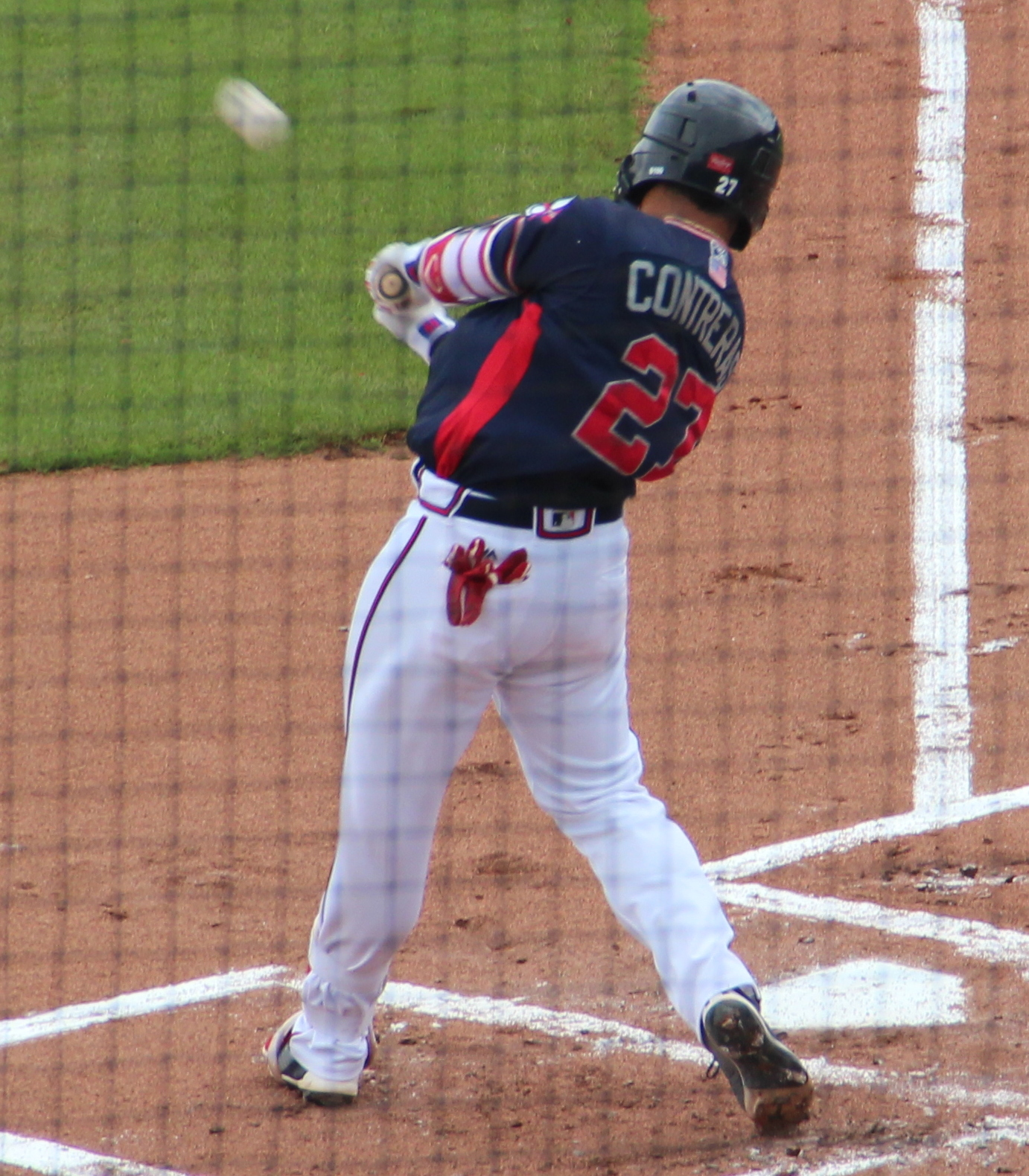 Rome Braves vs. Asheville Tourists, May 30, 2018